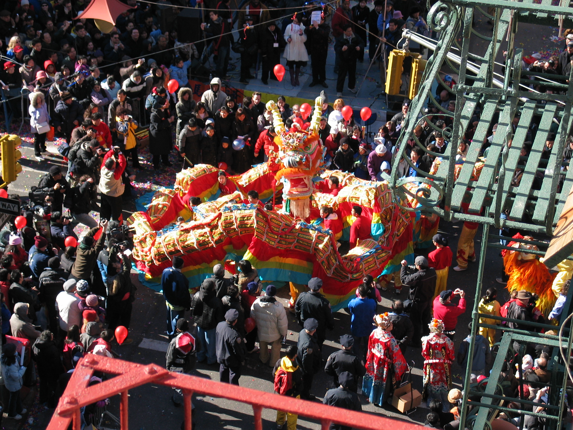 Check out the full size version.